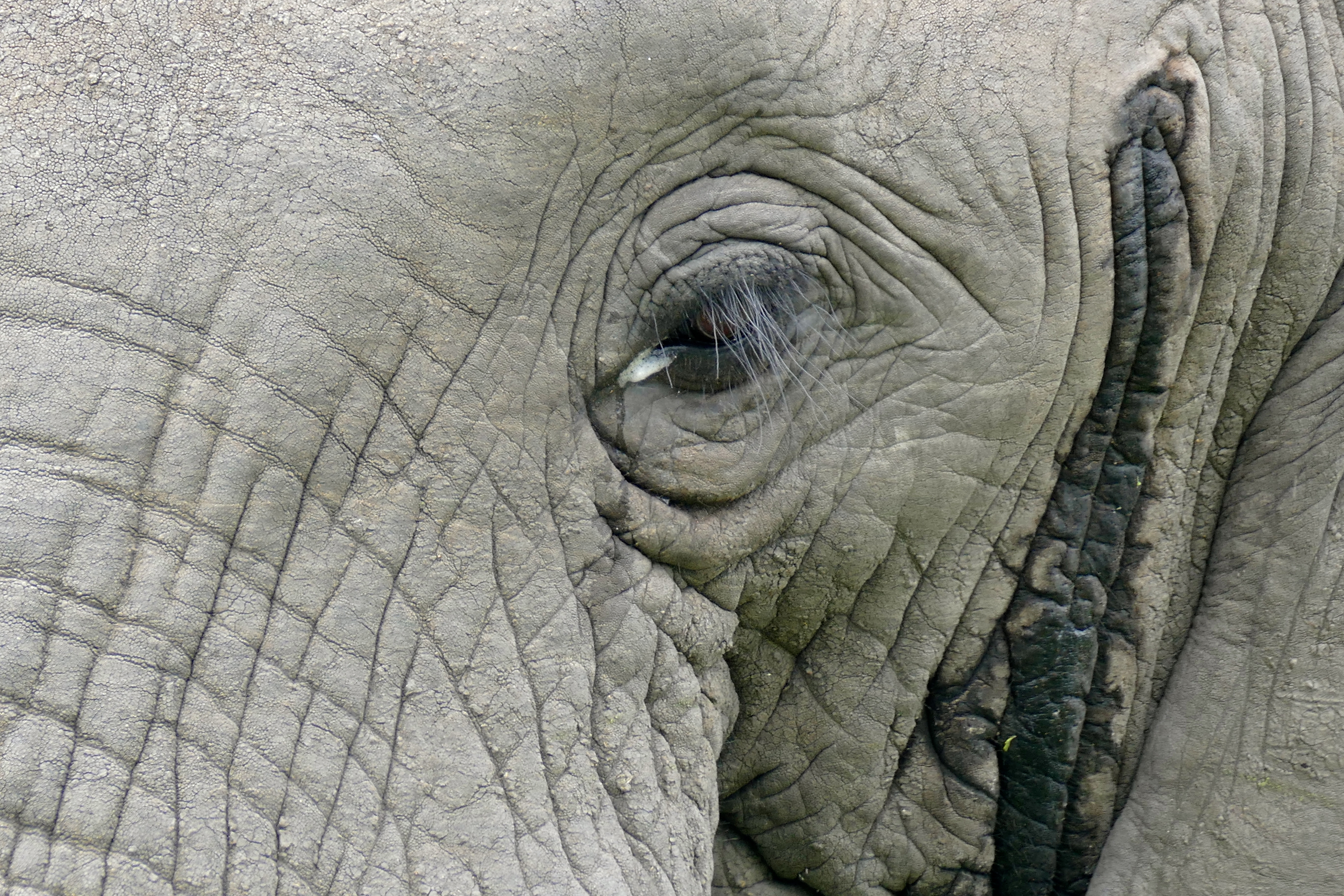 S26 Road West of Crocodile Bridge, Kruger NP, SOUTH AFRICA